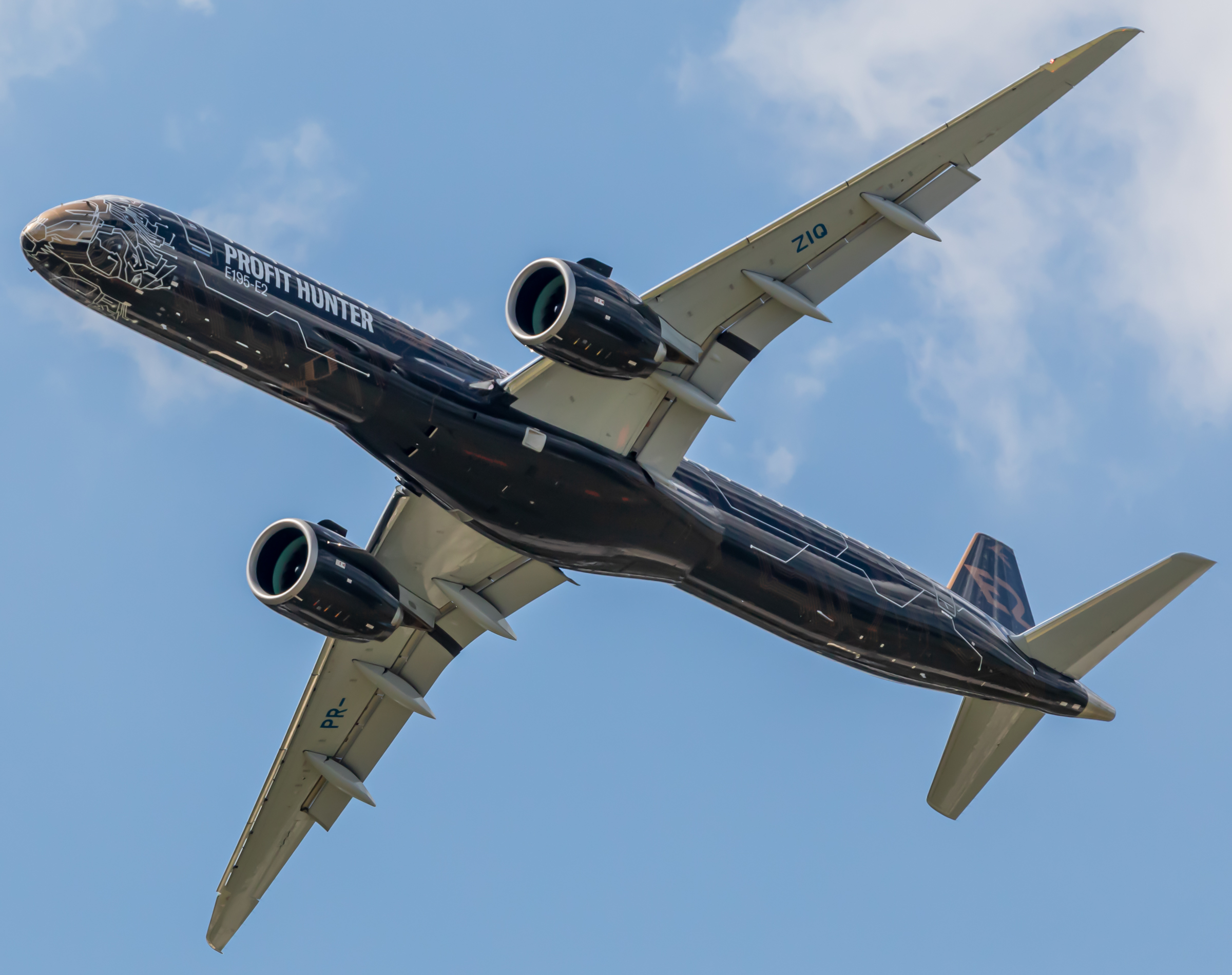 Embraer 195-E2 on flying display at Paris Air Show 2019